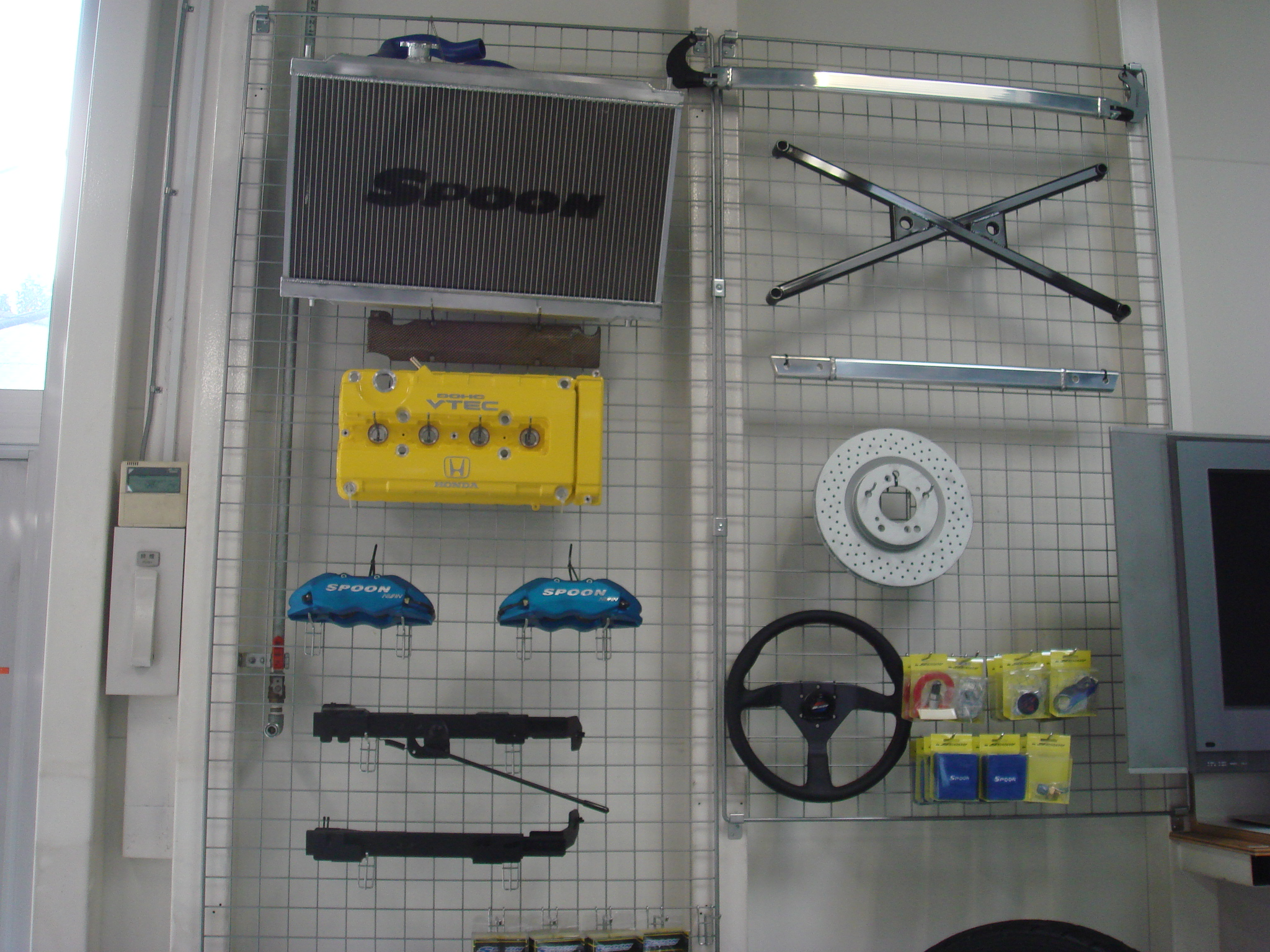 Spoon Sports items for sale